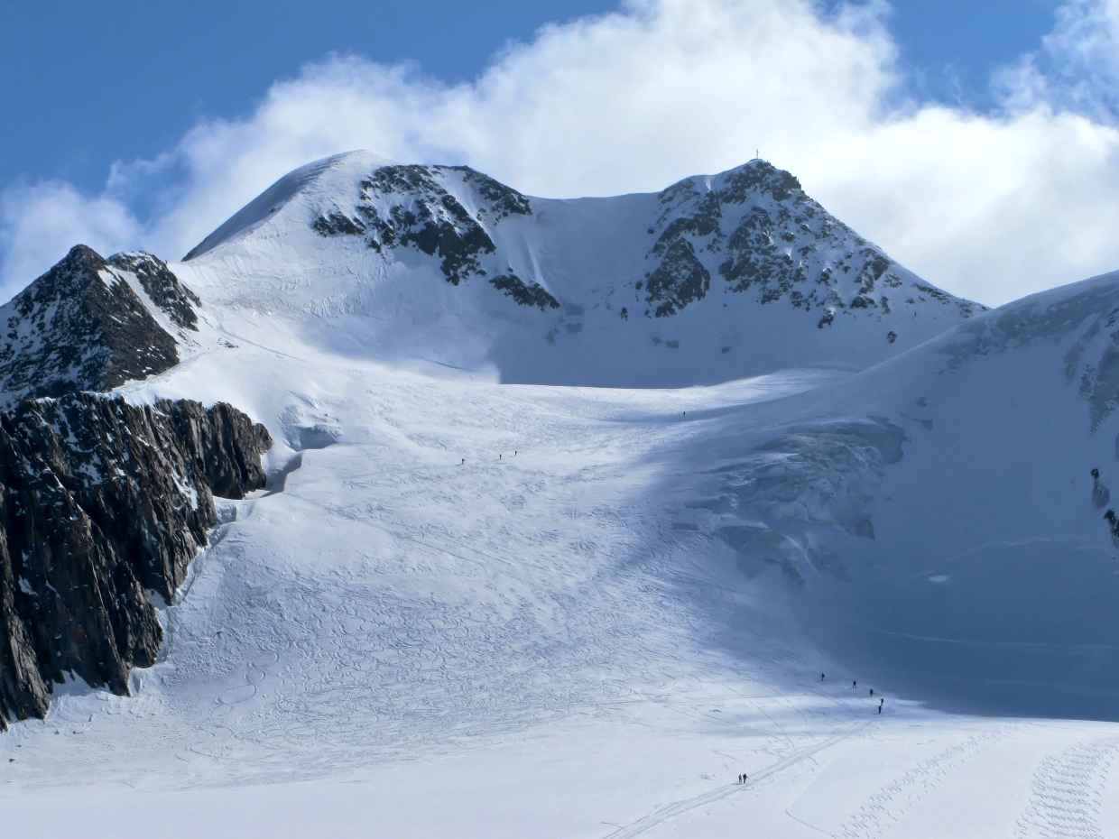 Mountain "Wildspitze" in the Ötztal Alps, seen from the West